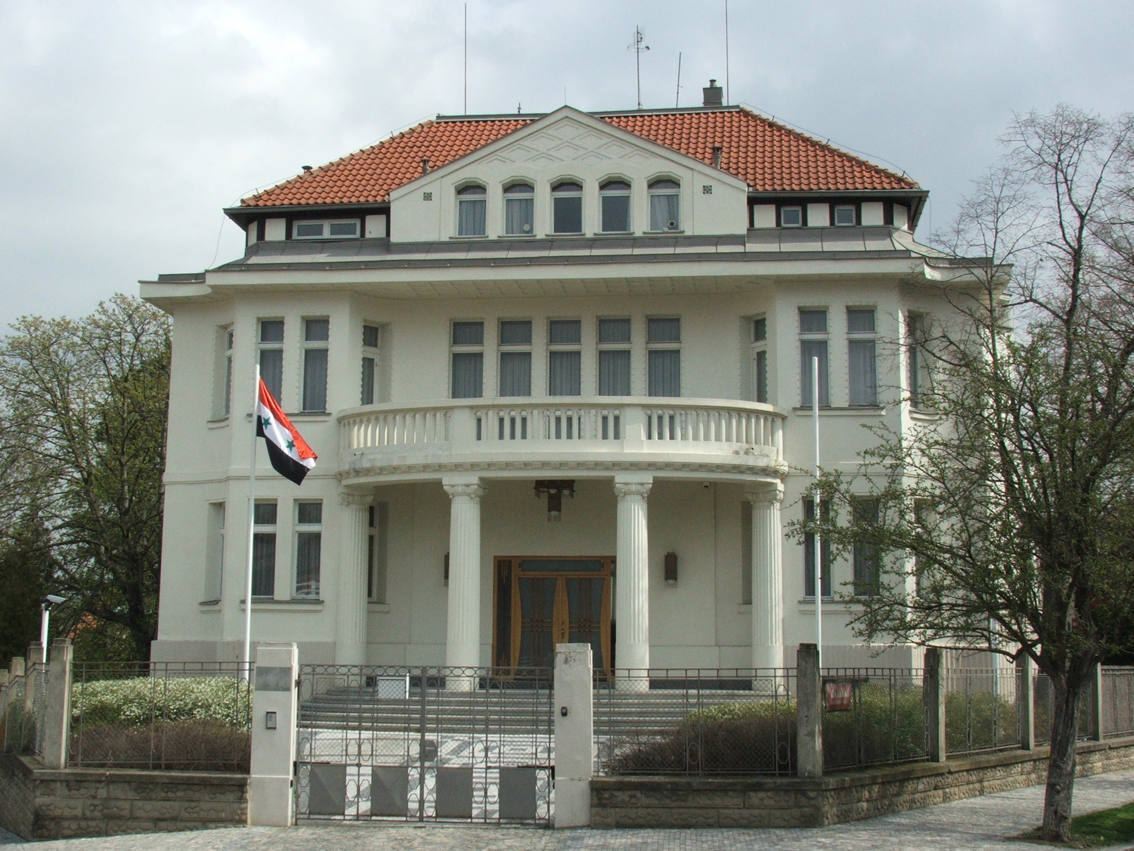 Embassy of Syria in Prague - Bubeneč, Czechia, Street Českomalínská.